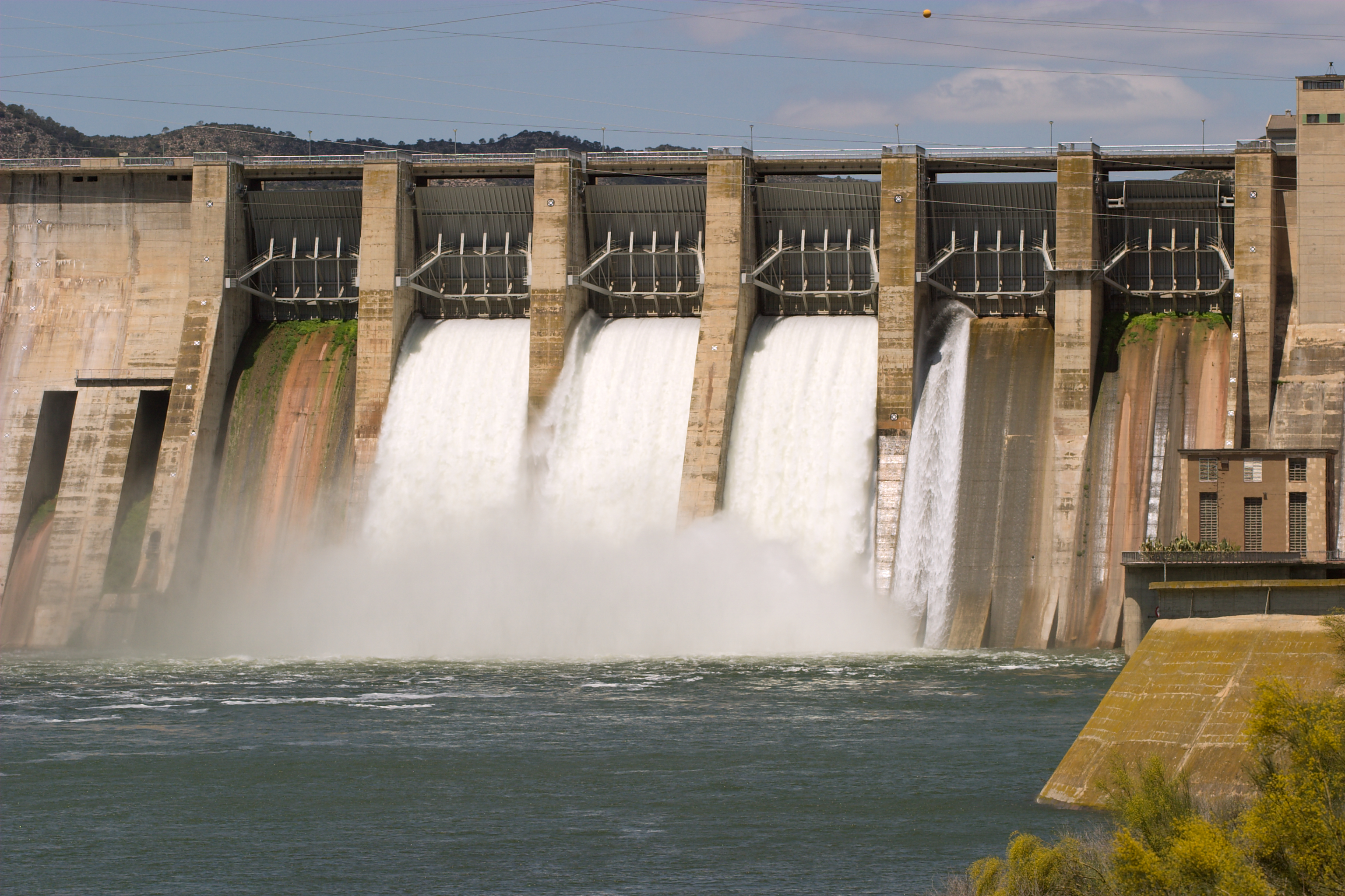 Mequinensa dam